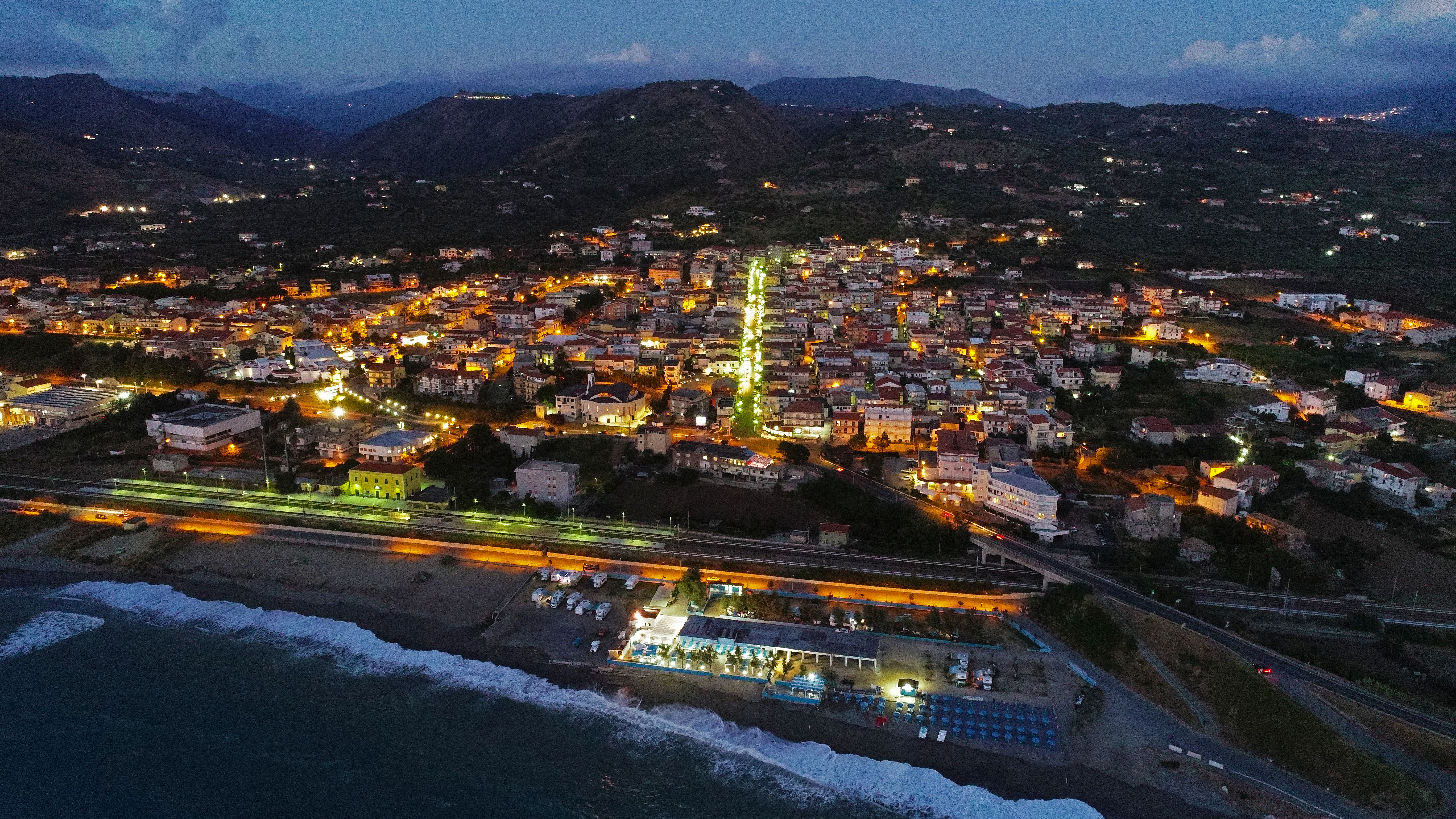 Panorama by night Campora San Giovanni on drone 2020